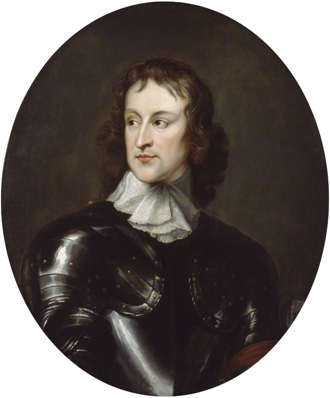 English Civil War General John Lambert